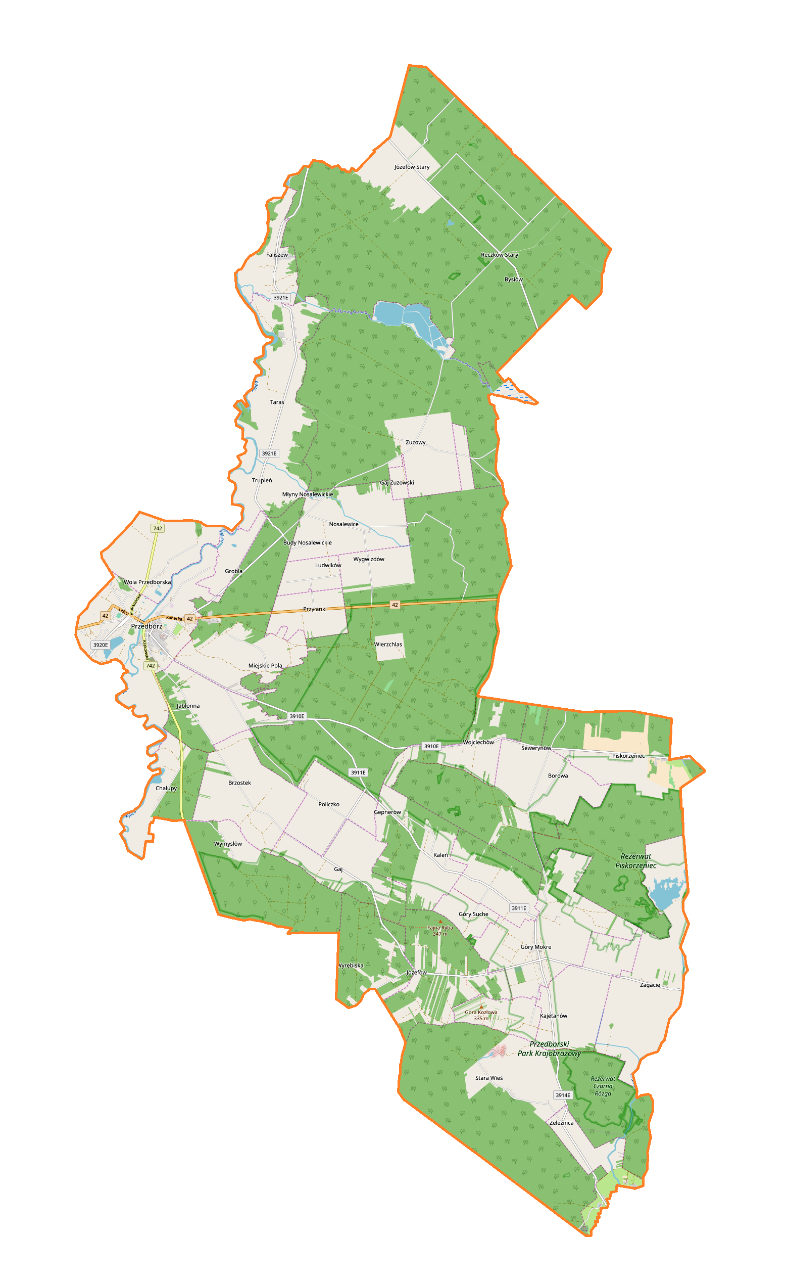 Location map